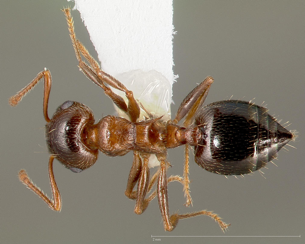 Dorsal view of ant Crematogaster mormonum specimen casent0005671.